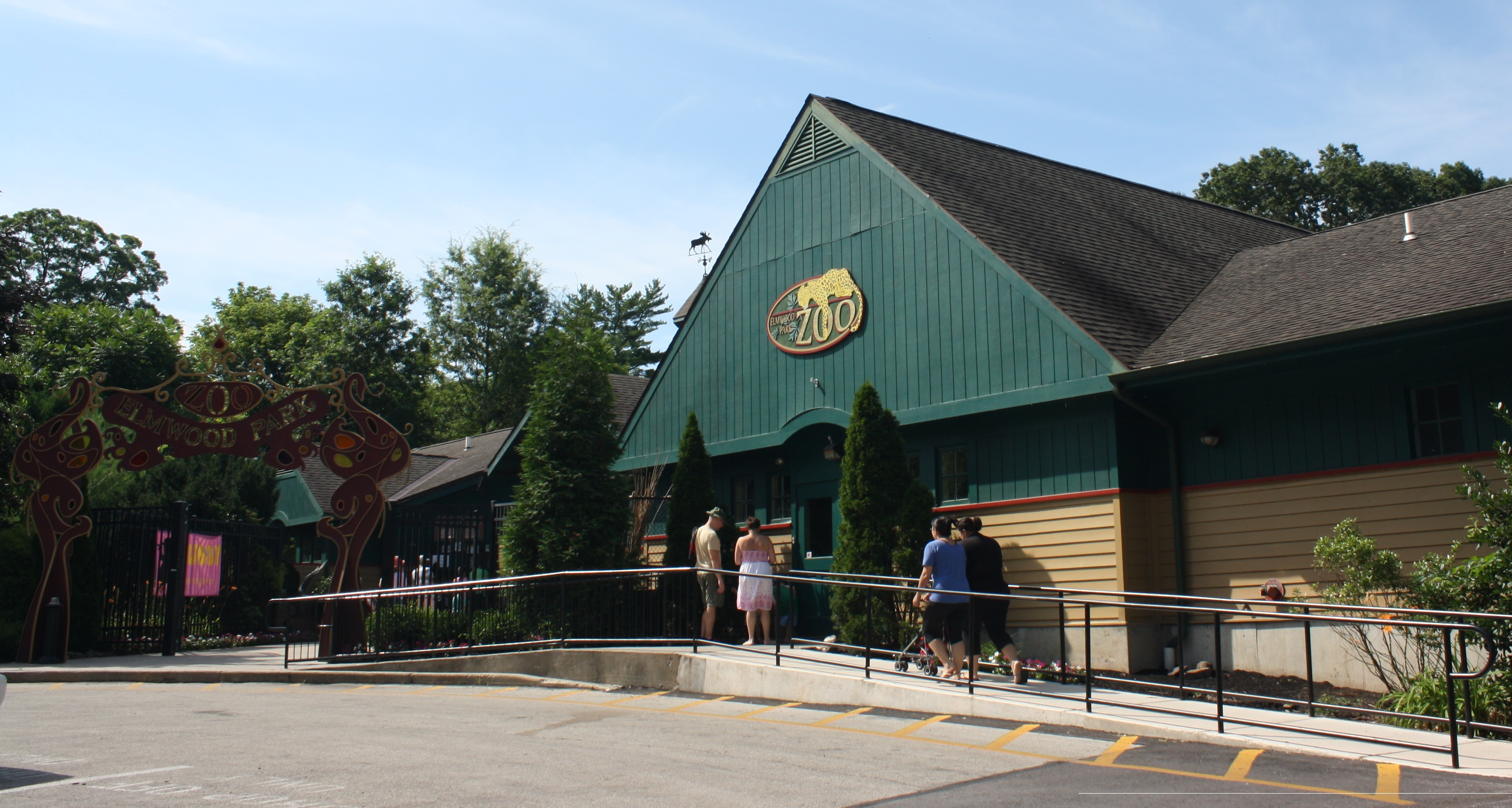 The Elmwood Park Zoo is a zoo in Norristown, Pennsylvania.